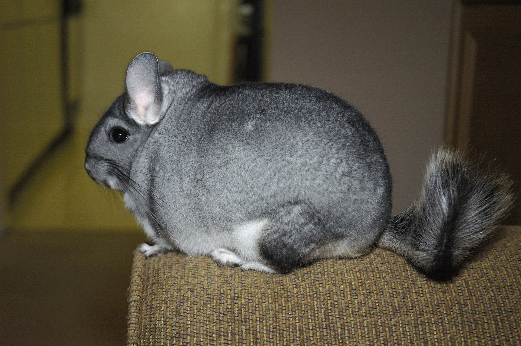 Image of cautive adult Chinchilla lanigera